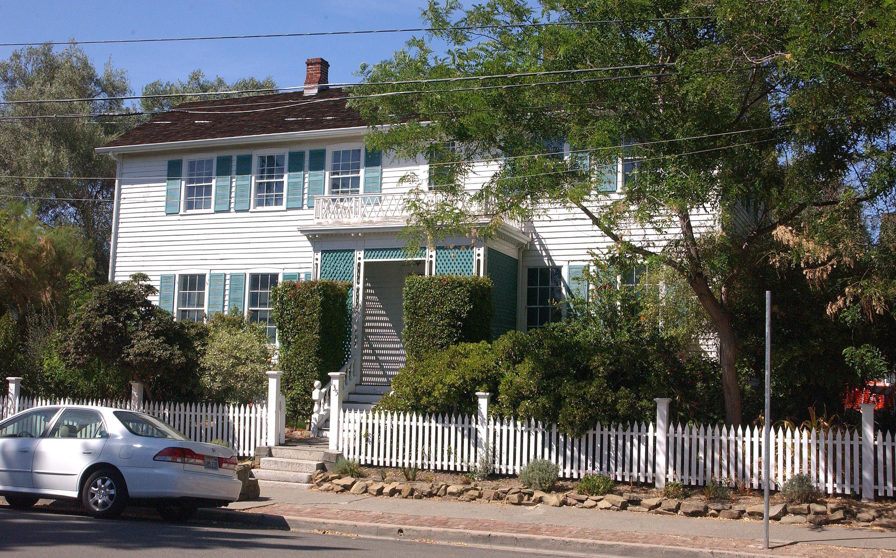 FISCHER-HANLON HOUSE LOCATED NEXT TO THE CAPITOL BUILDING WAS ONCE A GOLD RUSH HOTEL. IT WAS BOUGHT BY A SWISS MERCHANT, JOSEPH FISCHER WHO MOVED THE HOUSE TO ITS PRESENT LOCATION. HIS FAMILY OCCUPIED THE HOUSE UNTIL 1969 WHEN IT WAS DONATED TO THE STATE.